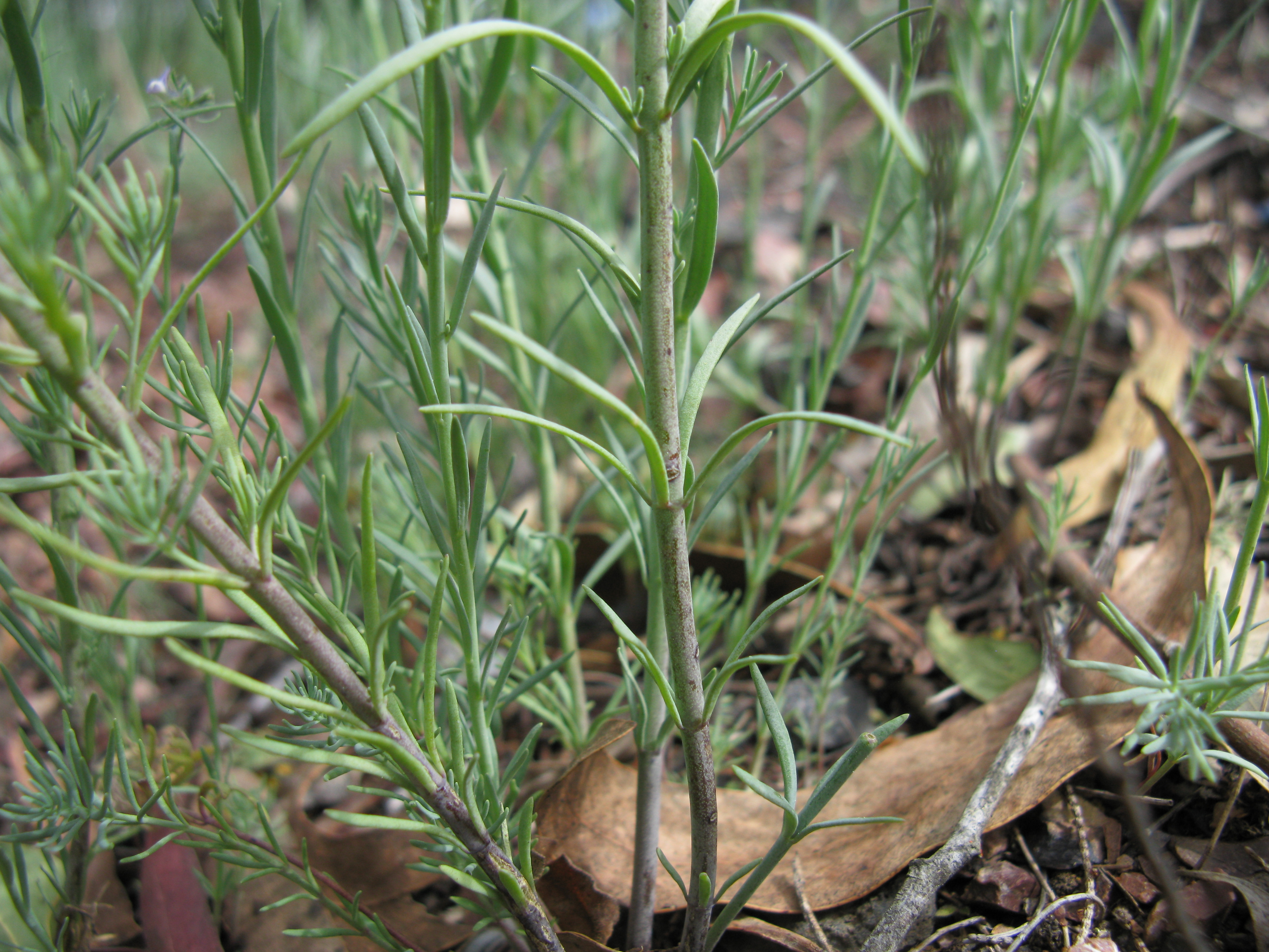 Introduced, cool season, annual erect, glaucous, simple or much-branched herb, 10–40 cm tall; hairless except for glandular-hairy sepals. Leaves are linear to narrow-elliptic and 0.4–3.5 cm long; whorled below, but alternate up the stem. Flowerheads are many-flowered spikes to racemes; at first dense then elongating in fruit. Flowers are nearly sessile, but pedicels are 1–2 mm in fruit. Sepals are 2 mm long. Petals are 2-lipped, 3–4 mm long, pale blue to purple, palate at least sometimes white, and with a spur 1.5–3 mm long and curved; upper lip pointed outwards, lower lip longest, recurved. Fruit are rounded capsules 3–4 mm long. Flowering is in spring. Found chiefly in disturbed sites along roadsides and railway lines, or in pasture, and in forest and woodland.